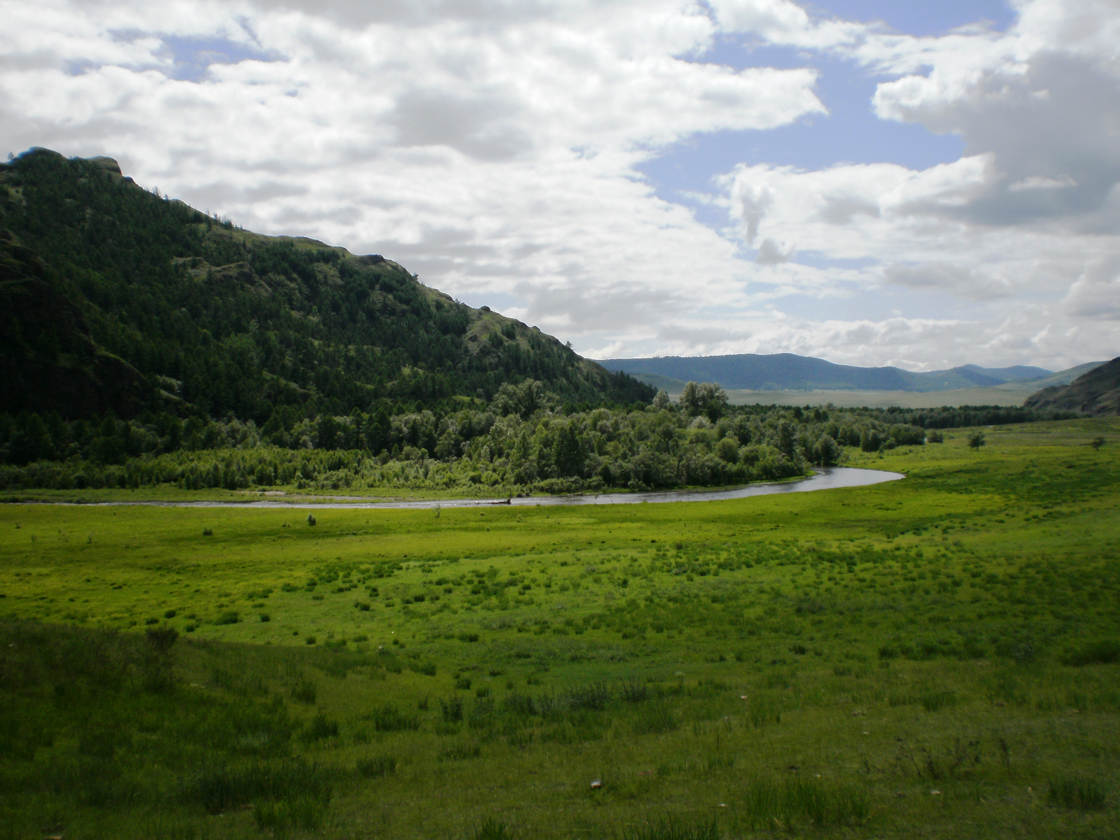 Askiz river, Abakan river tributary, near Aar mounts, Khakassia, Russia.